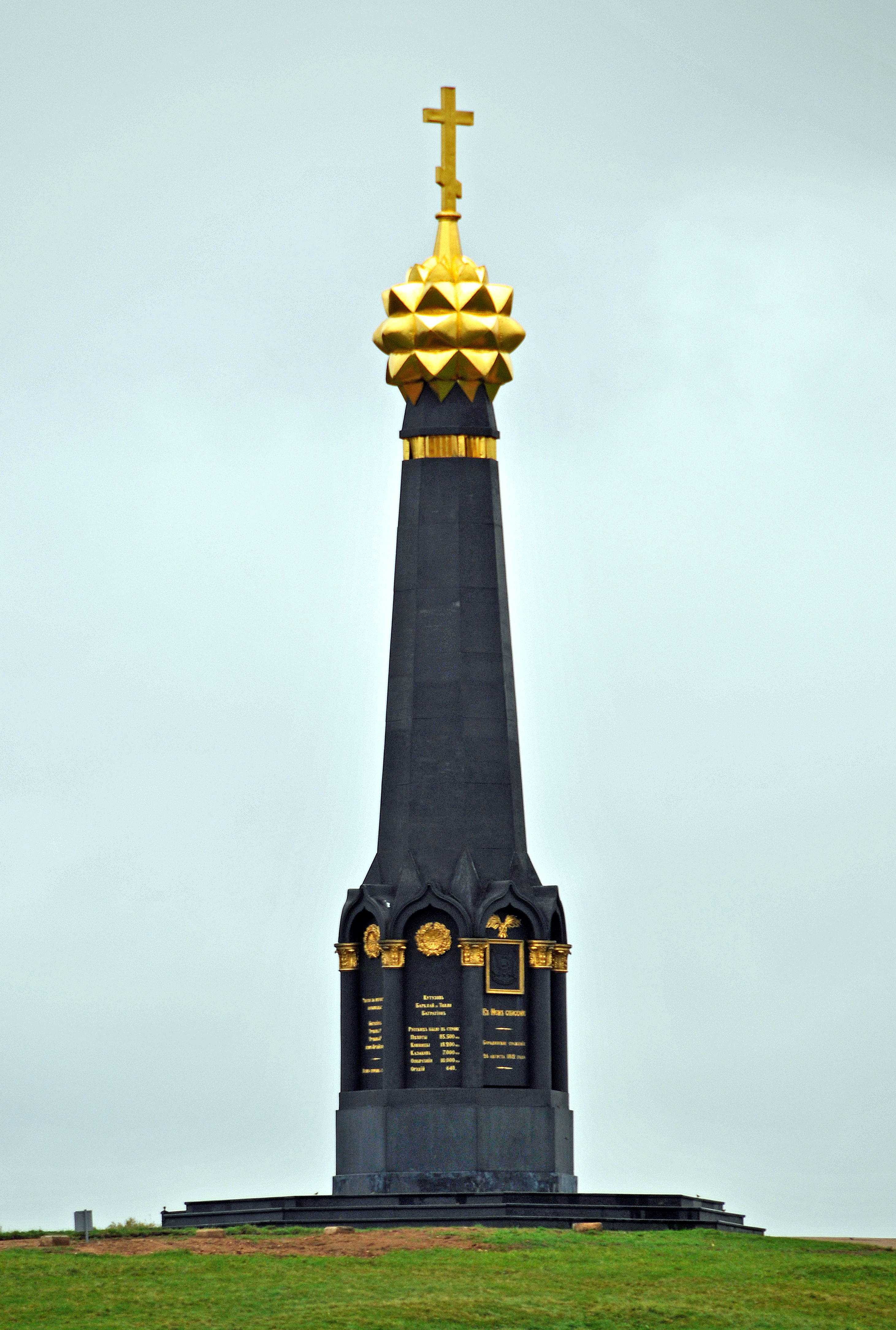 It was raining when we were here so it was a quick stop. The Borodino field, where the Russian Army under Field-Marshal Mikhail Kutuzov engaged the French Army under Napoleon on September 7th, 1812. The Battle of Borodino went down in history as the bloodiest battle on record, in which the Russians, as Napoleon put it, won the right to be called invincible. The battle of France’s 1812 war against Russia that largely predetermined the defeat of the Napoleon Army. September 7th has been celebrated as “Borodino Day” ever since. Remember we saw this battle at the Borodino Battle Panorama Museum. There was also a battle here in WWII, October 1941, part of the Battle of Moscow.